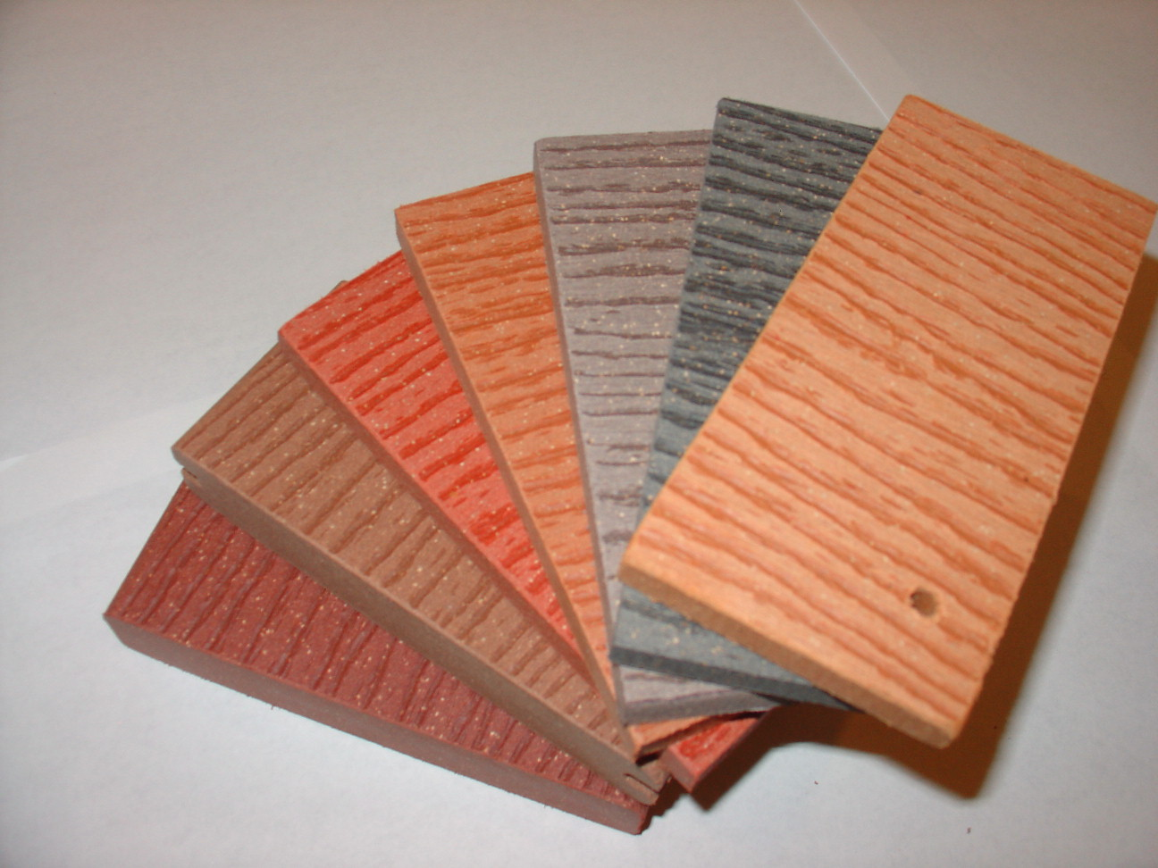 Another picture of New-Tech brand wood plastic composite, a type of engineered wood.